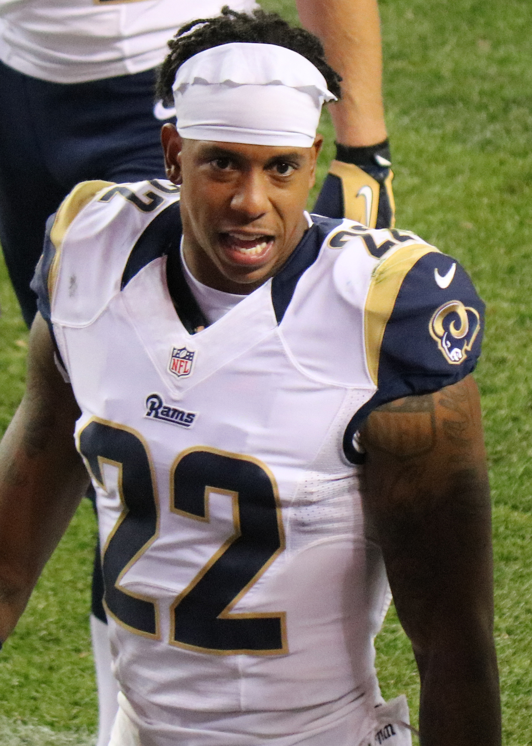 Trumaine Johnson, a player on the National Football League.